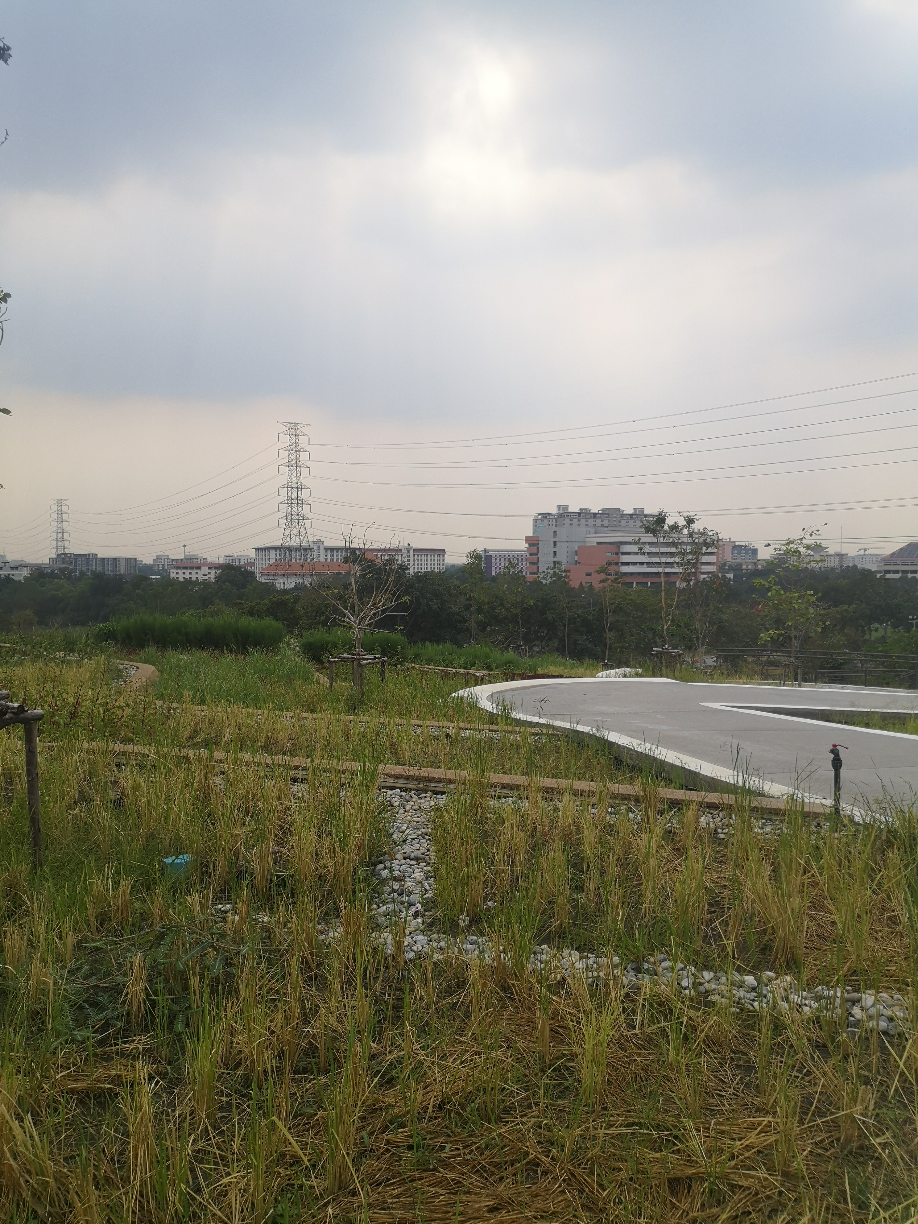 Puey Park